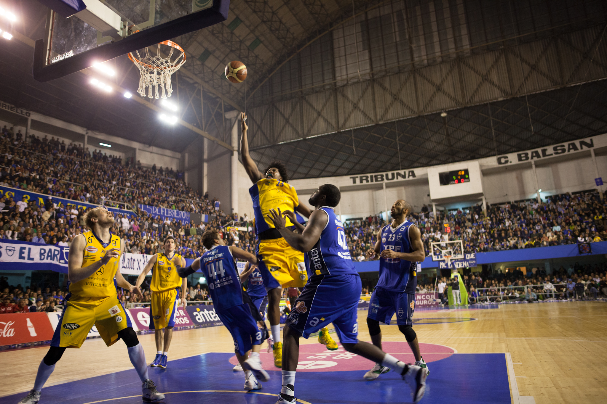 5th and final playoff game between Hebraica y Macabi and Malvin for the LUB 2011-12, at Palacio Peñarol.